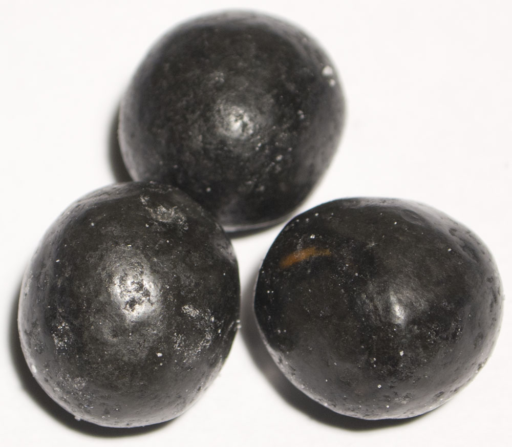 Salmiak balls